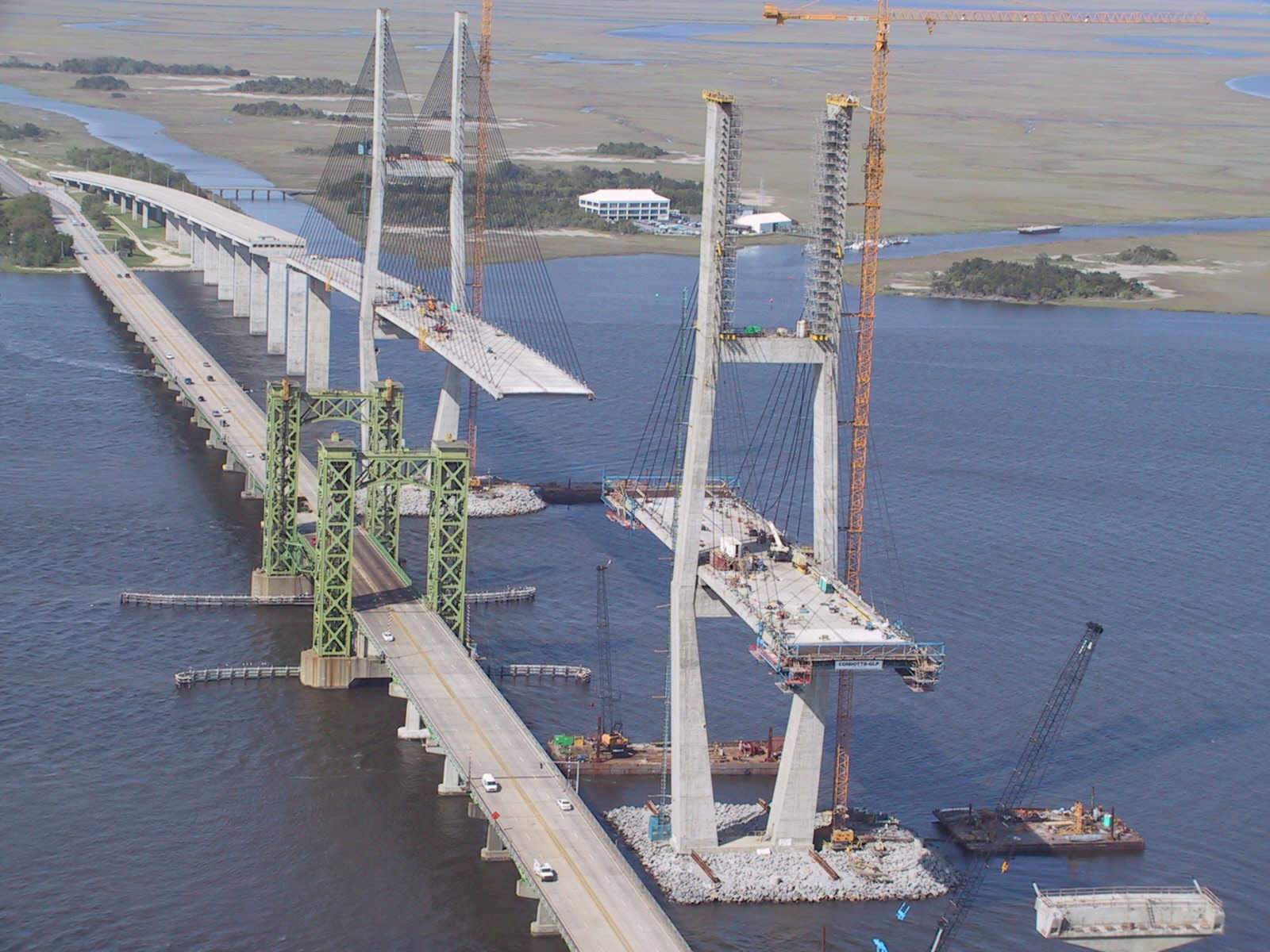 Aerial photo of the Sidney Lanier Bridge under construction.